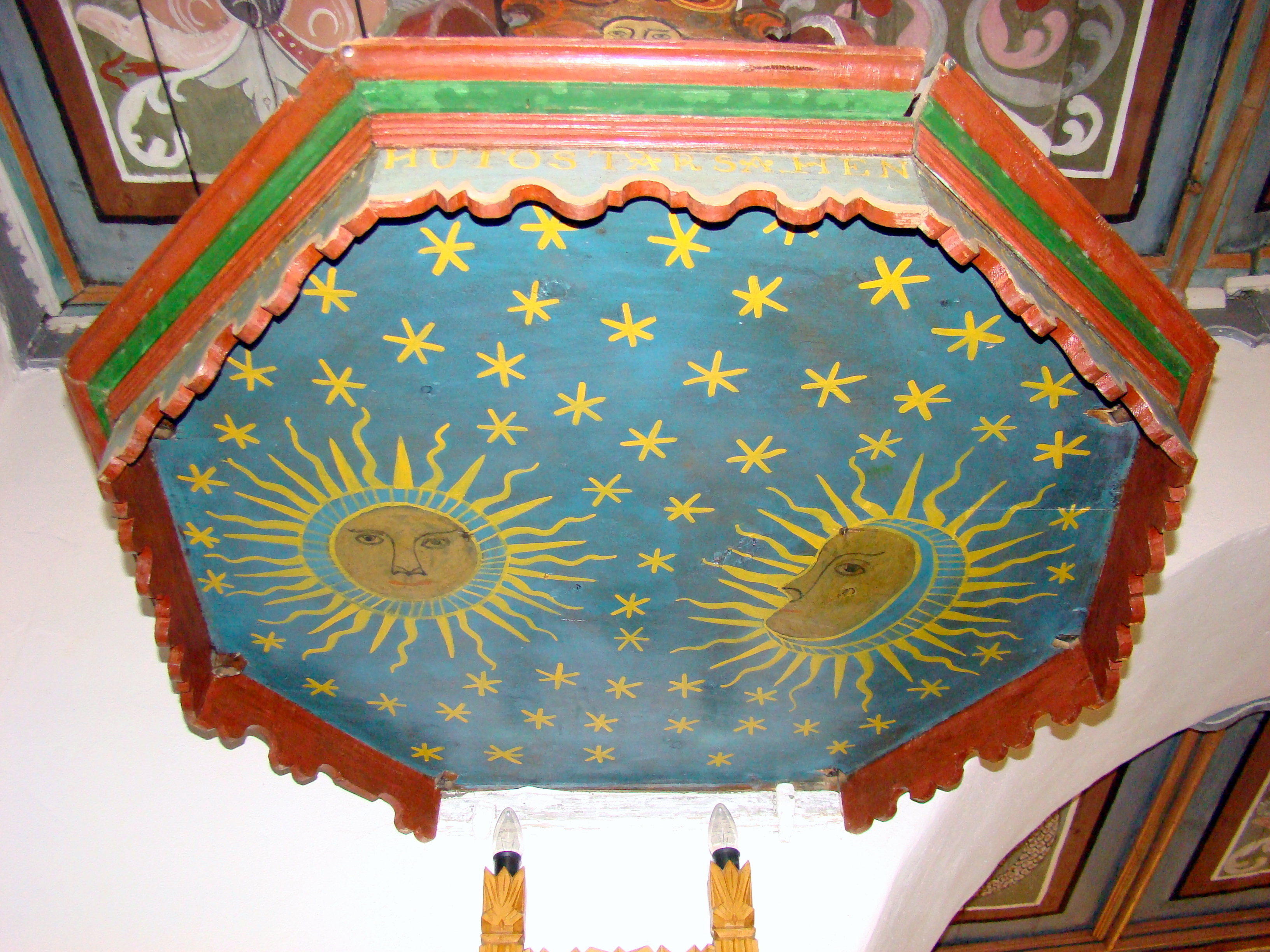 The canopy over the pulpit in the reformed church in Cipău, Mureș County, Romania